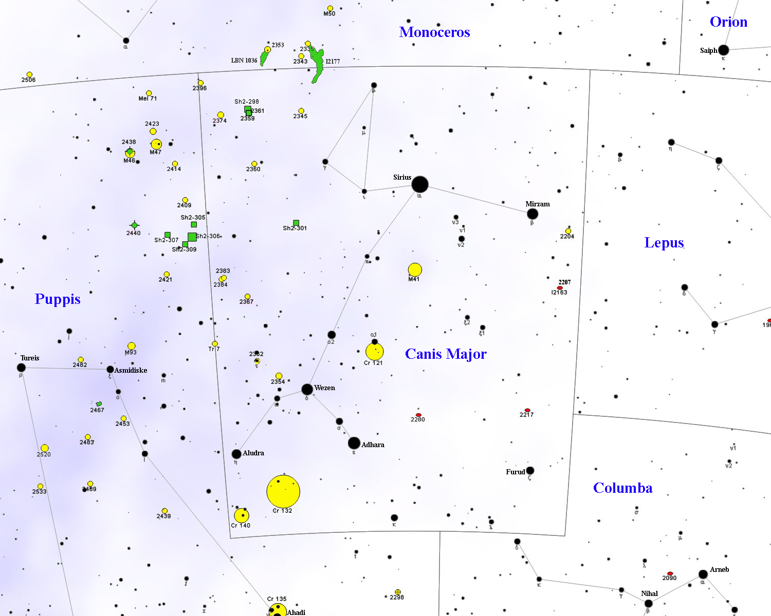 Canis Major constellation map, with DSOs